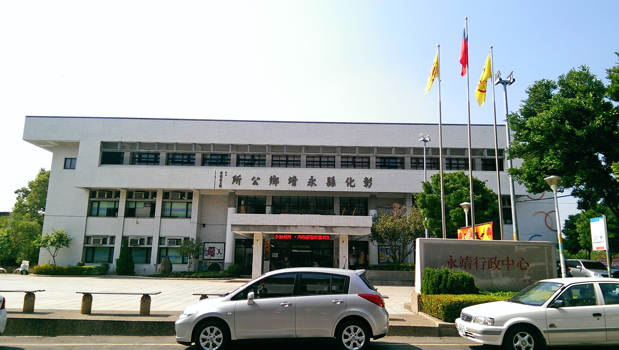 Yongjing Township Office中文（台灣）: 永靖鄉公所